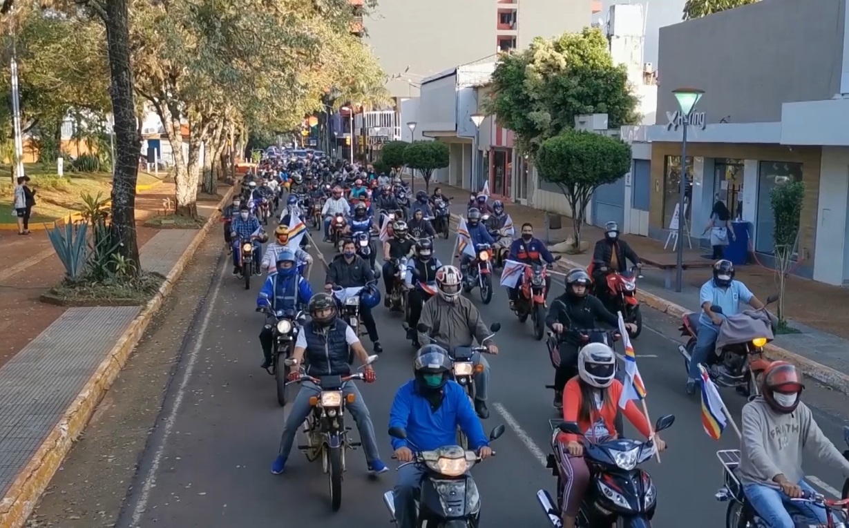 Street in downtown (Encarnación, Itapúa Department, Paraguay)